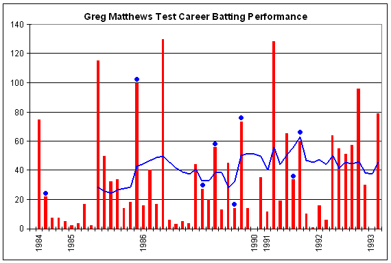 Test batting chart of Greg Matthews. Red columns are the runs in the innings. Blue dots indicate not outs. Blue line is average in the last ten innings. Thanks to Raven4x4x for providing the template.